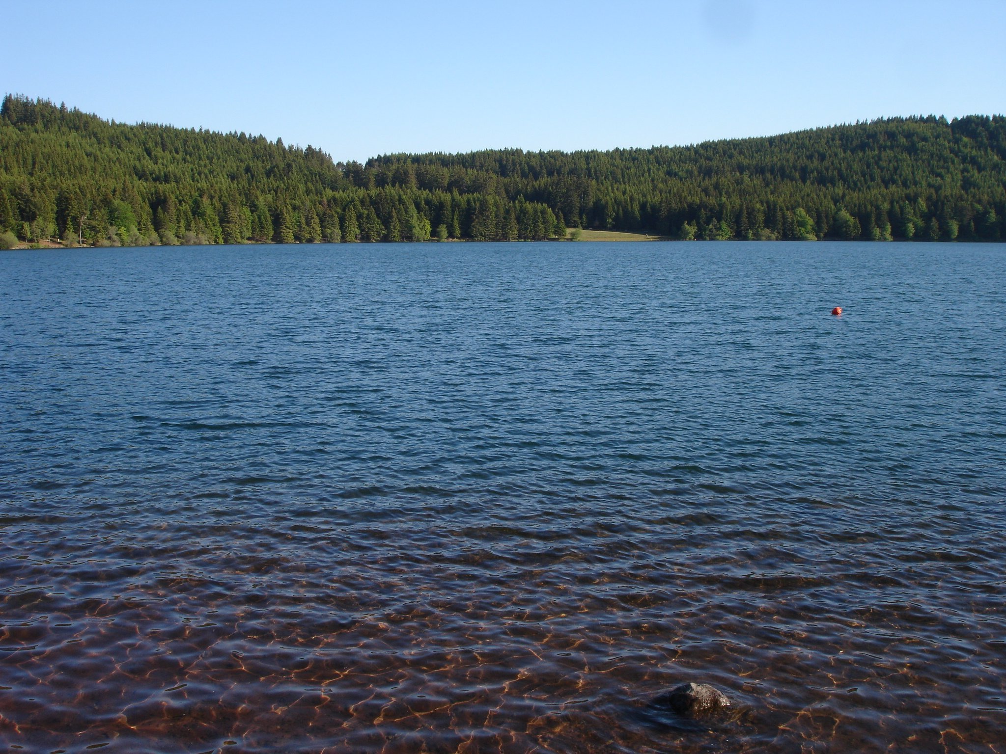 France, Haute-Loire (43), Bouchet Lake